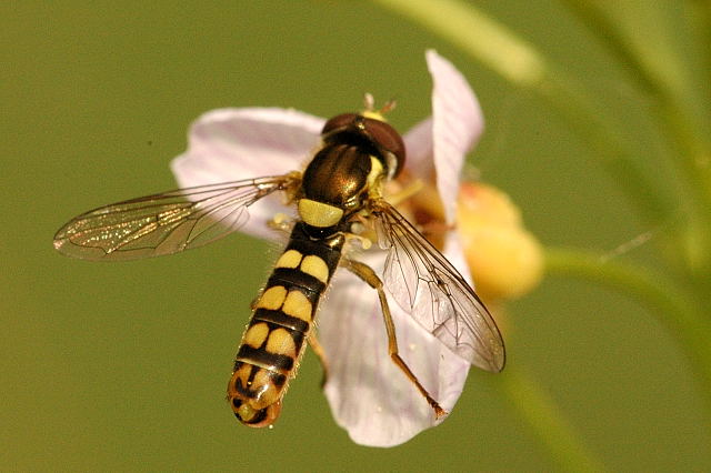 Picture taken in Commanster, Belgian High Ardennes . Species: Sphaerophoria interrupta